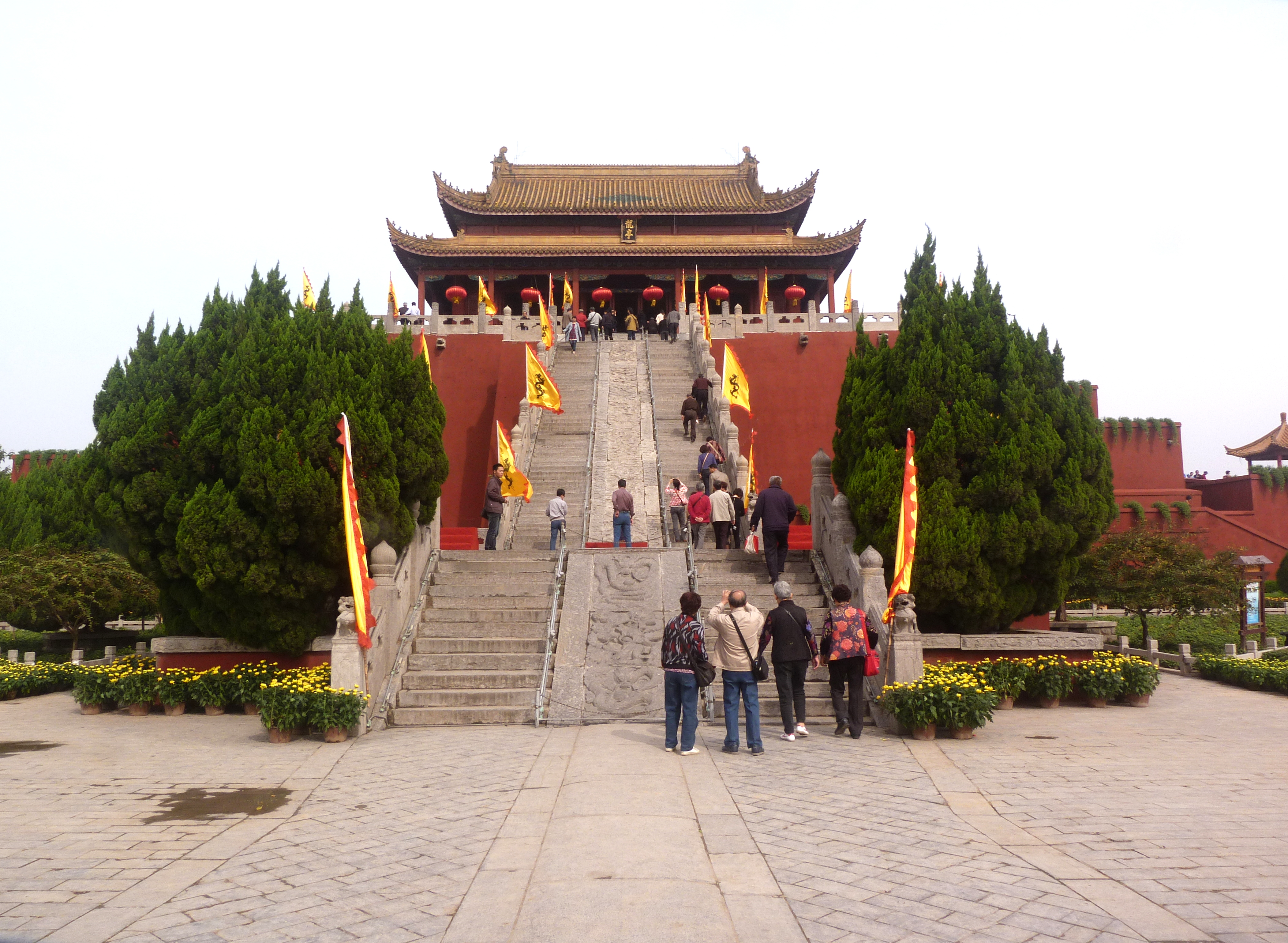 Dragon Pavilion in Kaifeng